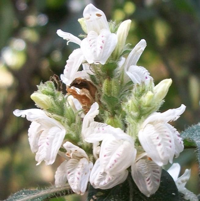 Isoglossa woodii flowers at Umdoni Bird Sanctuary